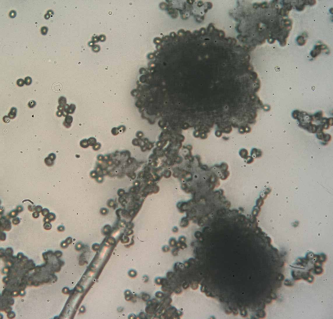 Rhizopus fungus grown on wet bread. Magnification 400x